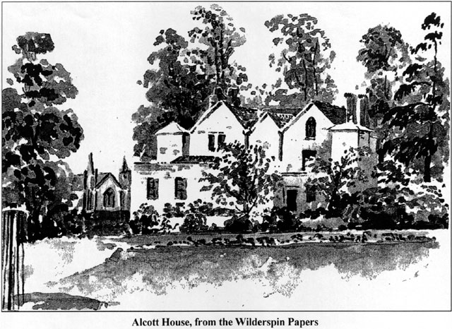 A view of Alcott House utopian spiritual community and progressive school at Ham Common. Exact location unconfirmed. Building to the left may be St Andrew's Church